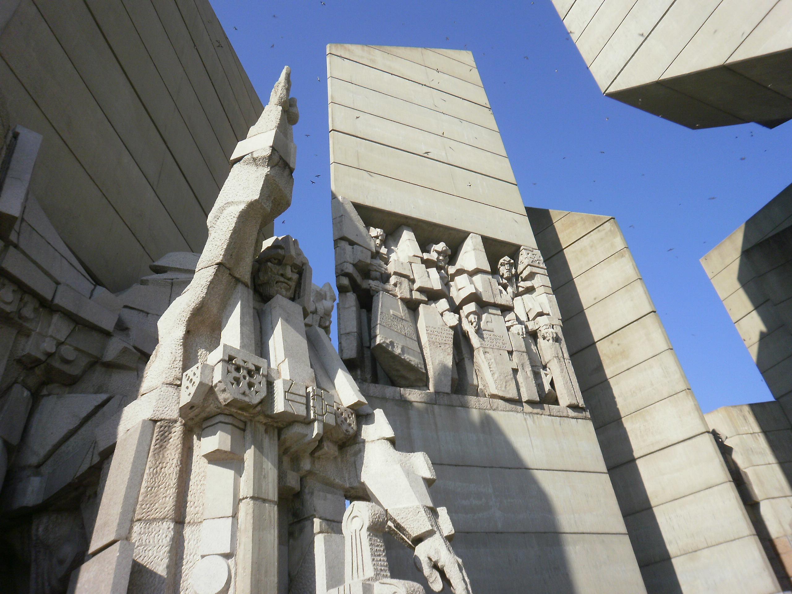 Monument to 1300 Years of Bulgaria